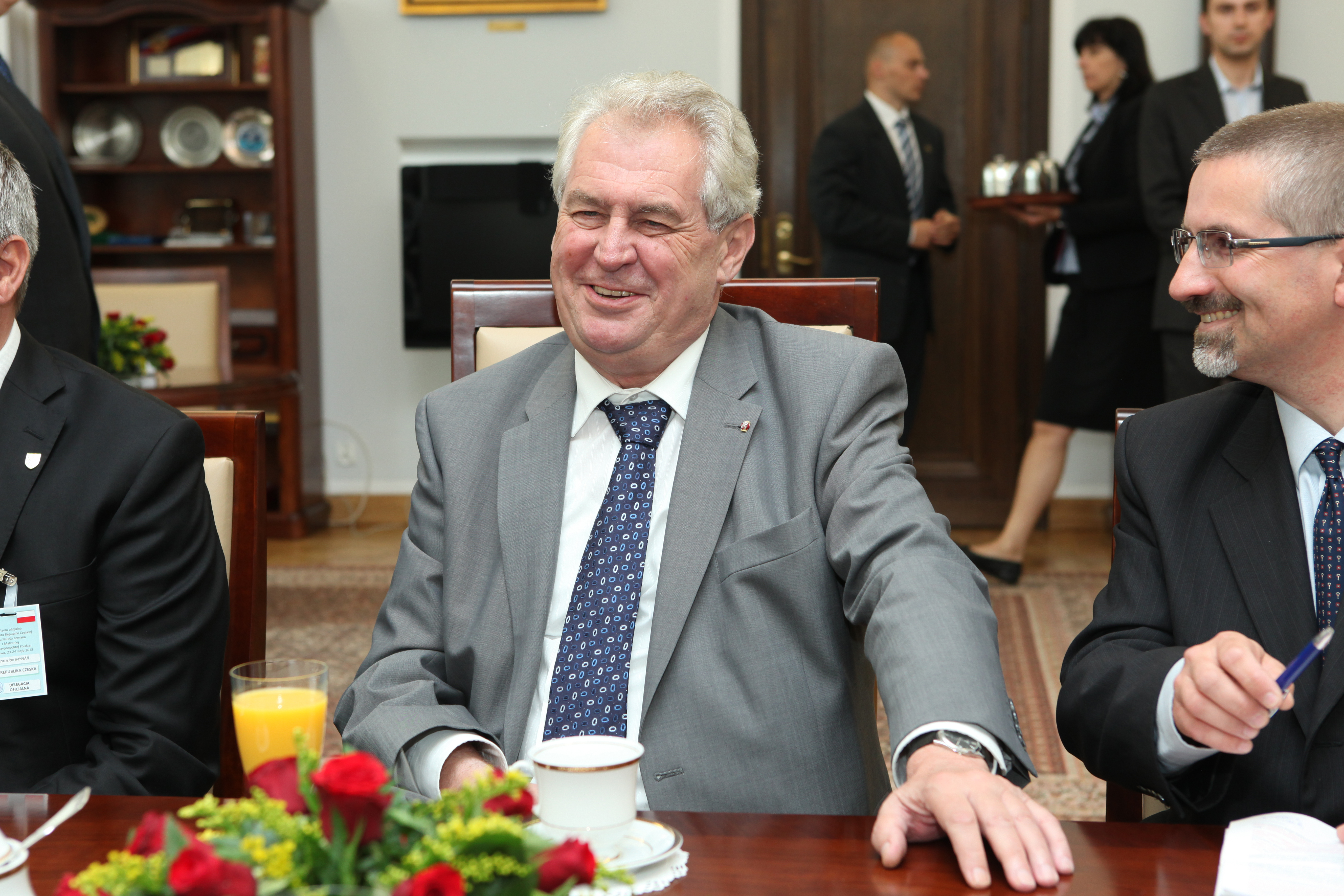 President of the Czech Republic Miloš Zeman in the Polish Senate